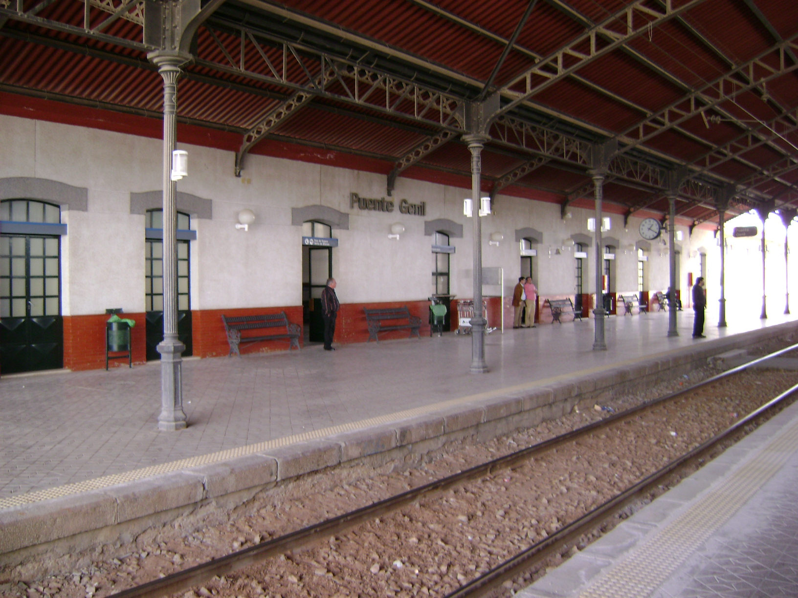 Puente Genil station